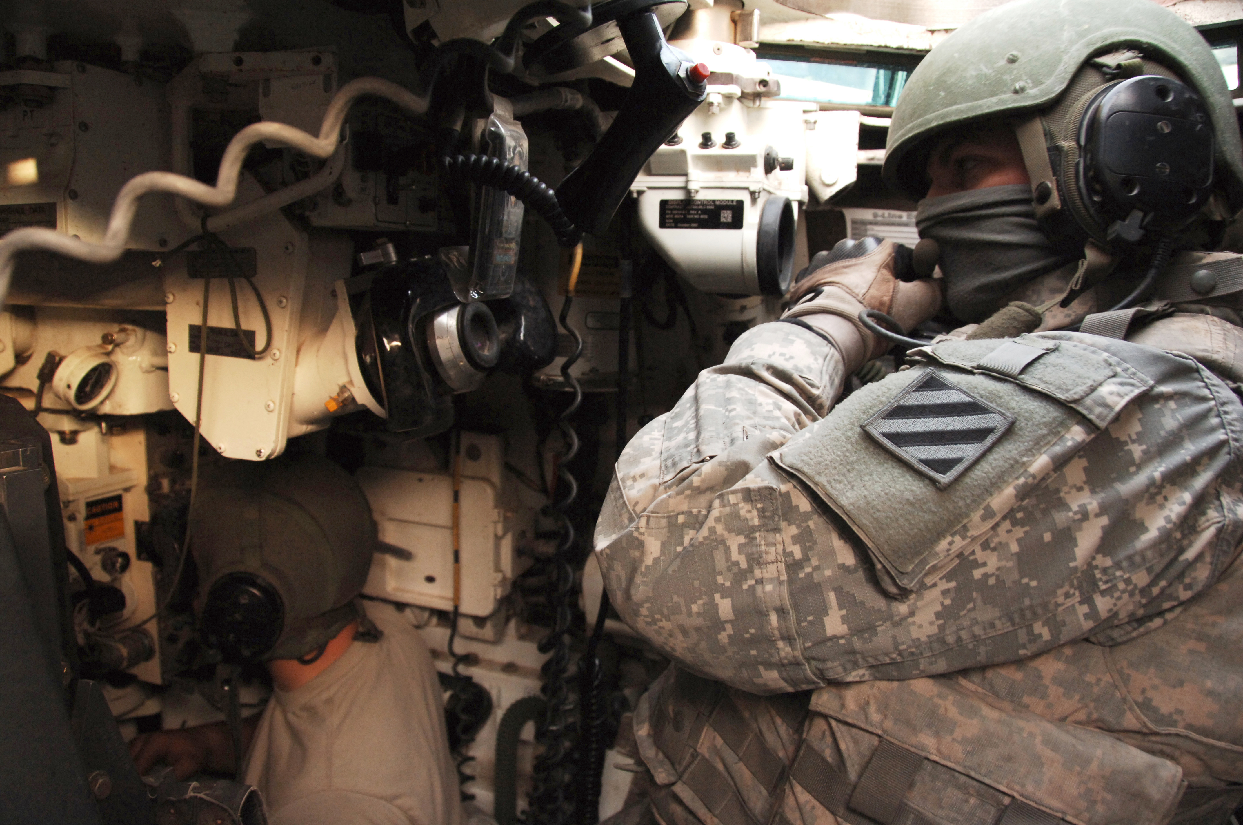 U.S. Army Sgt. Rice and Spc. Mike Seif, 3rd Infantry Division, both in an M1A1 Abrams tank equipped with a recently updated tank urban survivability kit, conduct a counter improvised explosive device mission in Baghdad, Iraq, Dec. 22, 2007. (U.S. Army photo by Spc. Luke Thornberry) (Released) (Released to Public)